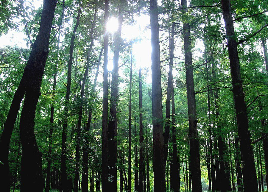 Forest